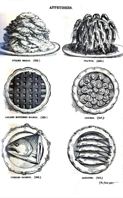 Illustrations of appetizers in the Victorian era